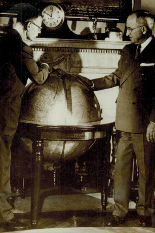 DCI Smith with President Truman.